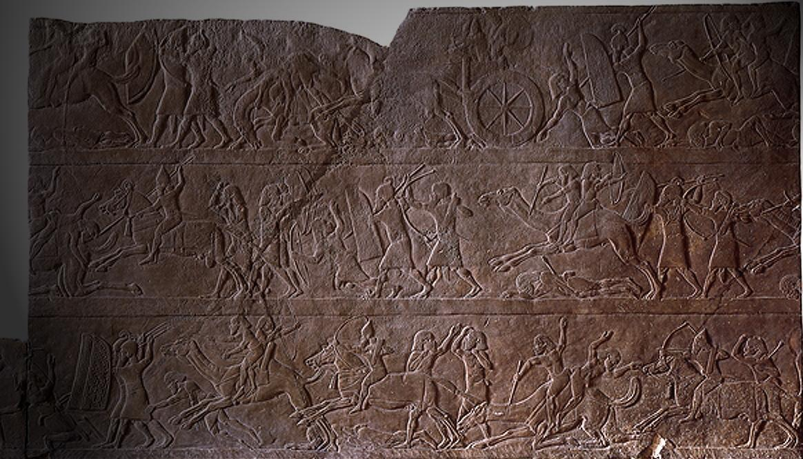 A portray of an Assyrian relief from the reign of Ashurbanipal depicting a battle with Qedarite\Arab tribes